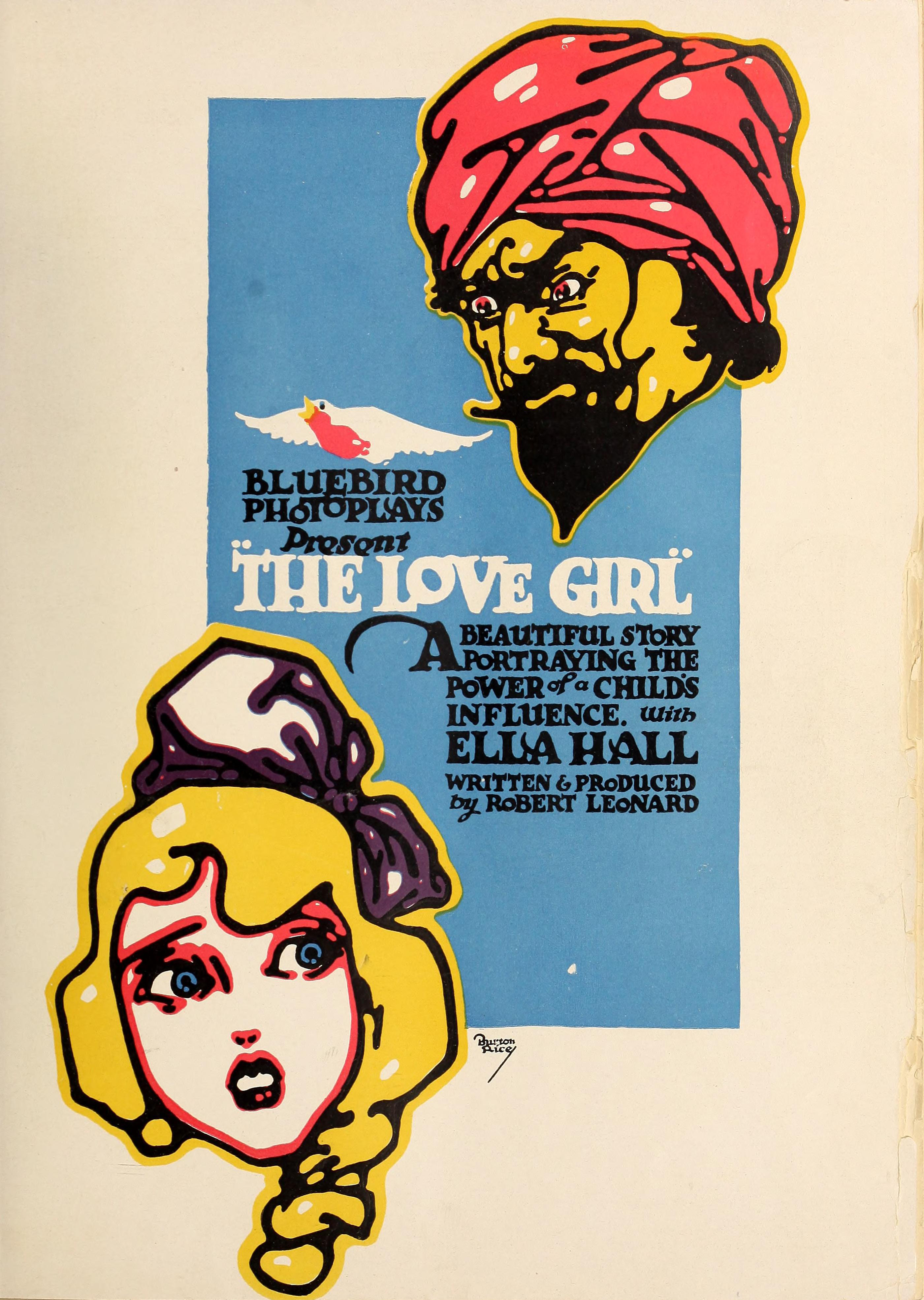 Advertisement in The Moving Picture World for the film The Love Girl (1916).